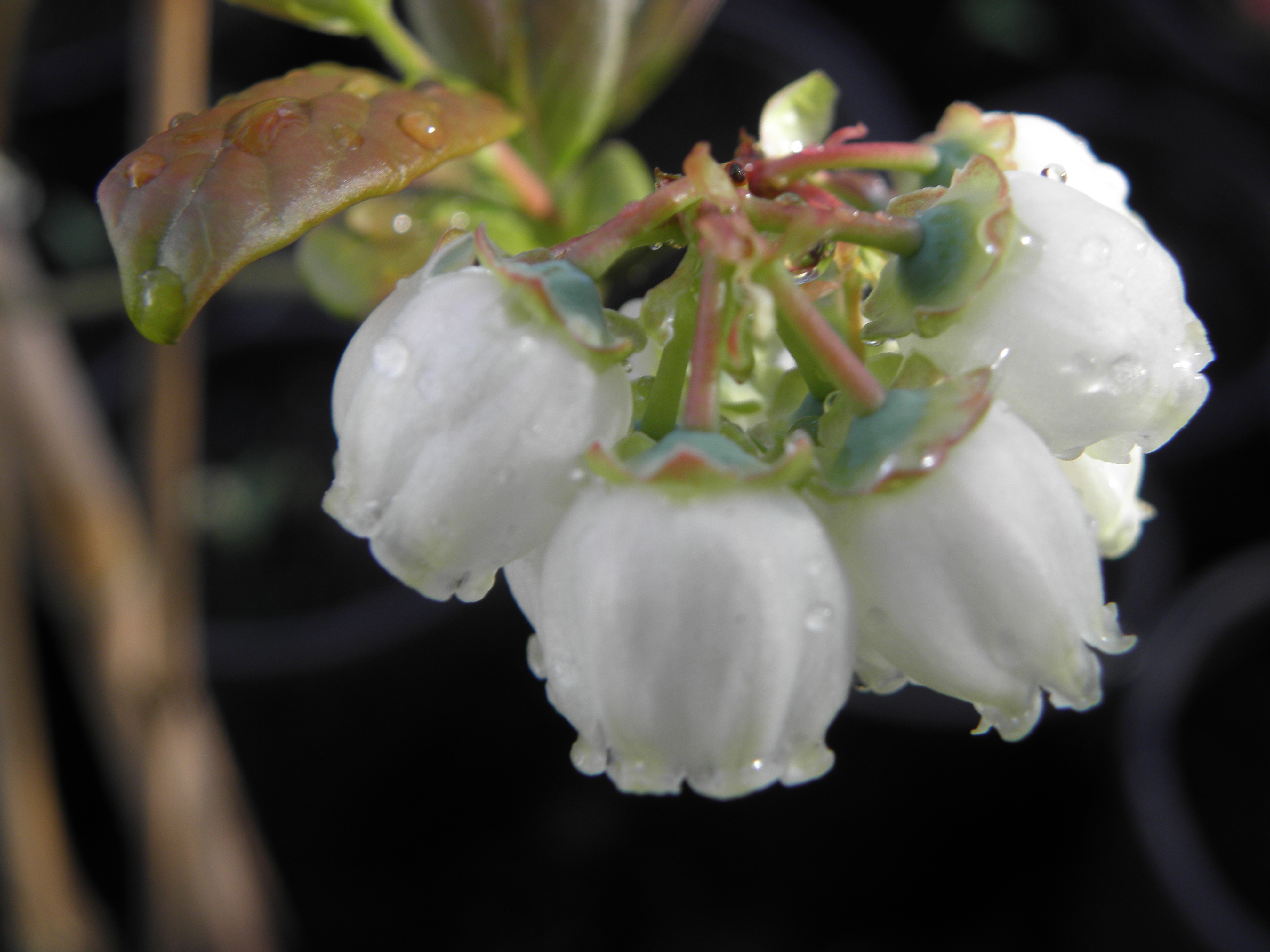 Highbush blueberryLatina: Vaccinium corymbosum